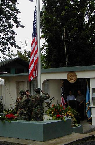 U.S. Embassy in Kolonia, Federated States of Micronesia